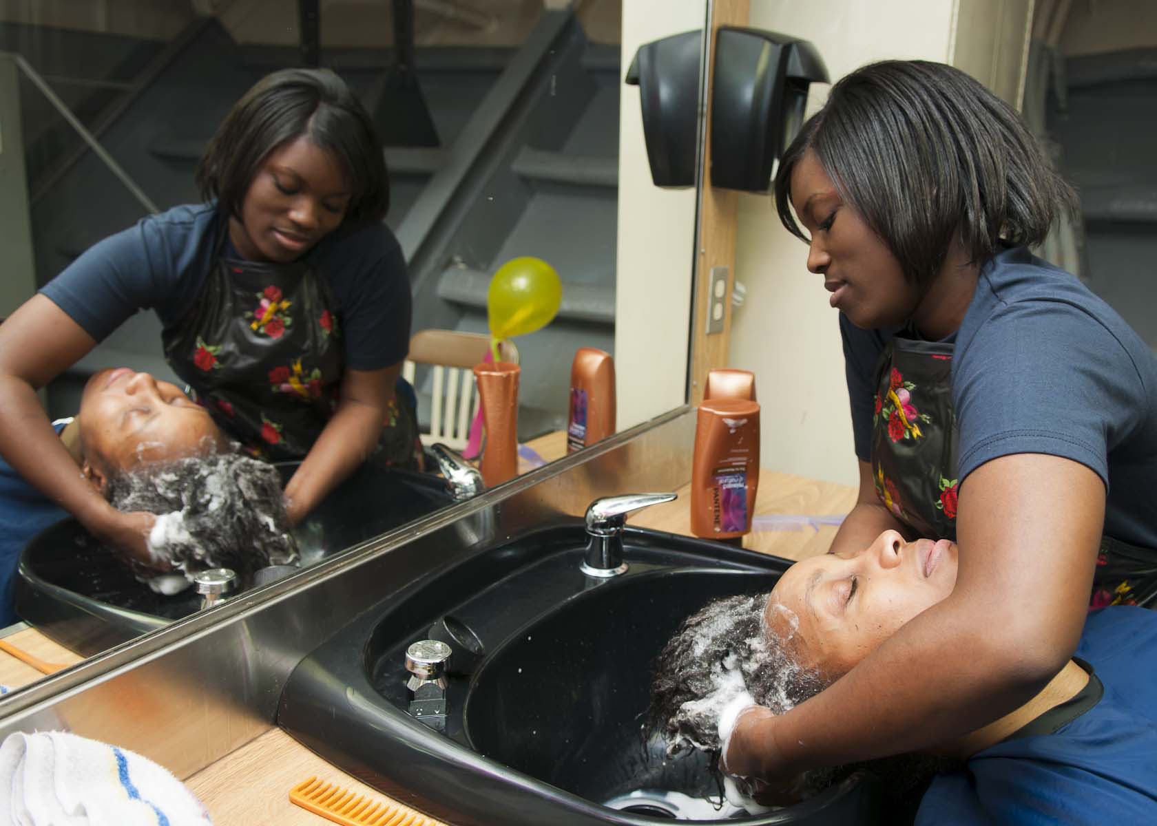 ARABIAN SEA (June 9, 2012) Ensign Jessica Powell shampoos the hair of Electronic Technician 2nd Class Maryam Gaskin during the grand opening of the beauty salon aboard the multipurpose amphibious assault ship USS Iwo Jima (LHD 7). Iwo Jima Amphibious Ready Group and embarked 24th Marine Expeditionary Unit are deployed in support of maritime security operations and theater security cooperation efforts in the U.S. 5th Fleet area of responsibility. (U.S. Navy photo by Mass Communication Specialist Seaman Jonathan L. Correa/Released) 120609-N-1995C-086 Join the conversation navylive.dodlive.mil